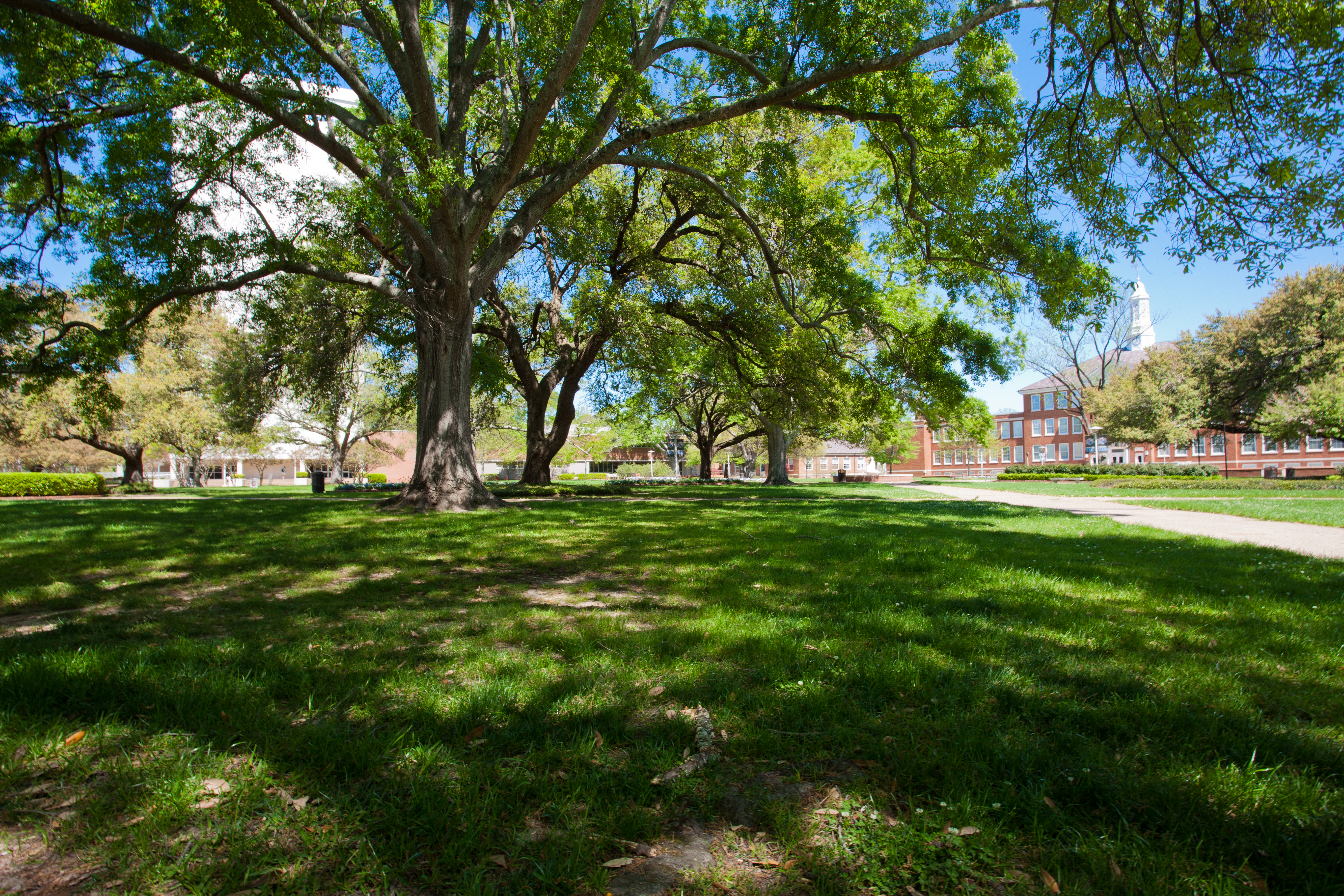 The Quad at Louisiana Tech University sits in the center of the old campus and is a hot spot for events and large student gatherings.